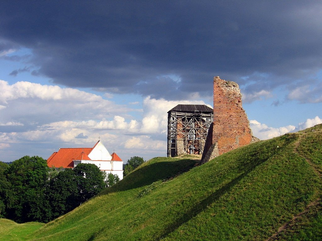 The ruins of Navahradak Castle. Navahradak, Belarus